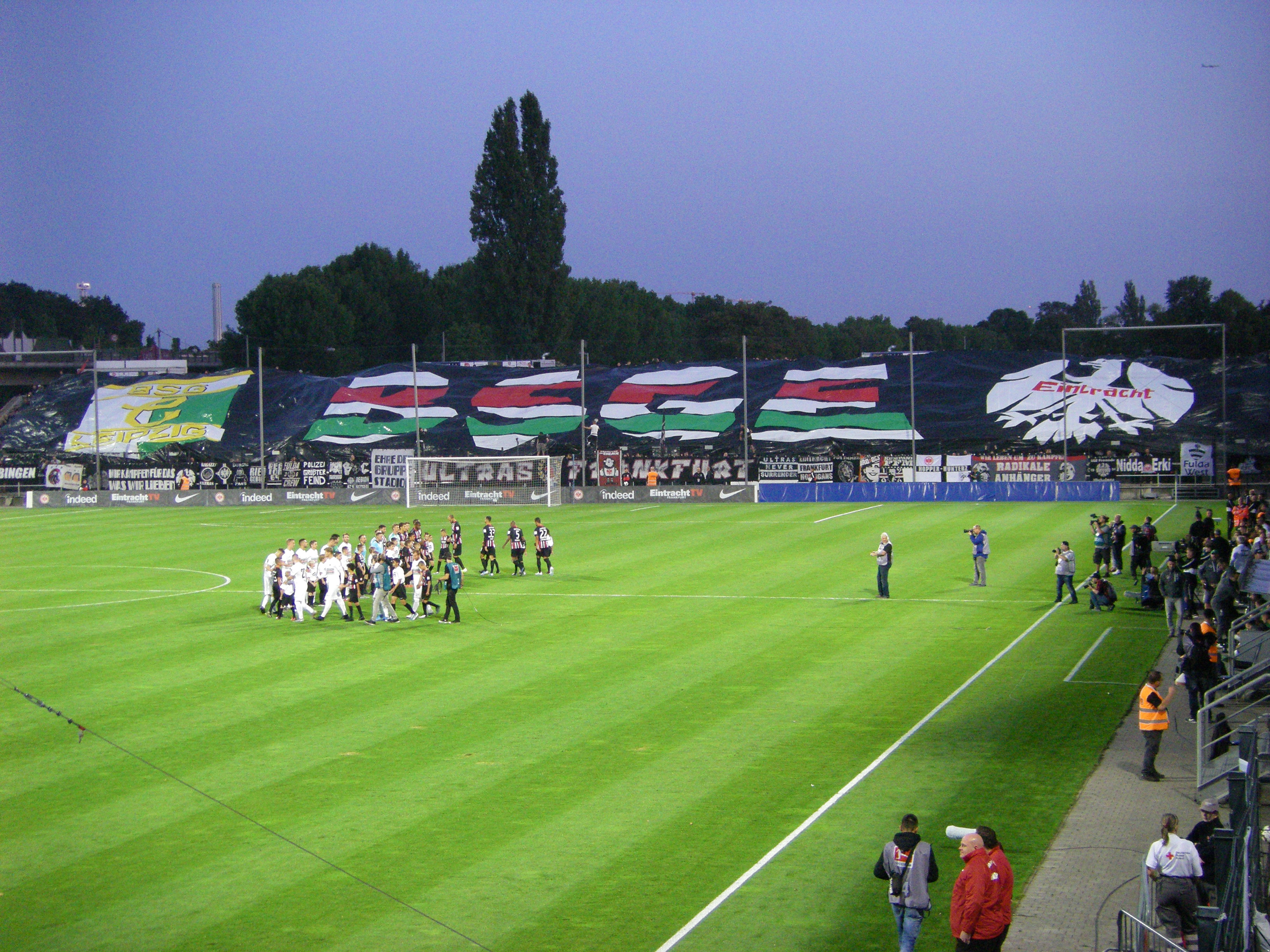 This banner was shown by the fans of Eintracht Frankfurt during a benefit match against BSG Chemie Leipzig to help finance a flood-lighting in their Alfred-Kunze-Sportpark, Leipzig. It shows the coat of arms of both clubs and the letters BSGE, a combination of their short versions: BSG (Chemie Leipzig) and SGE (for Sport-Gemeinde Eintracht).